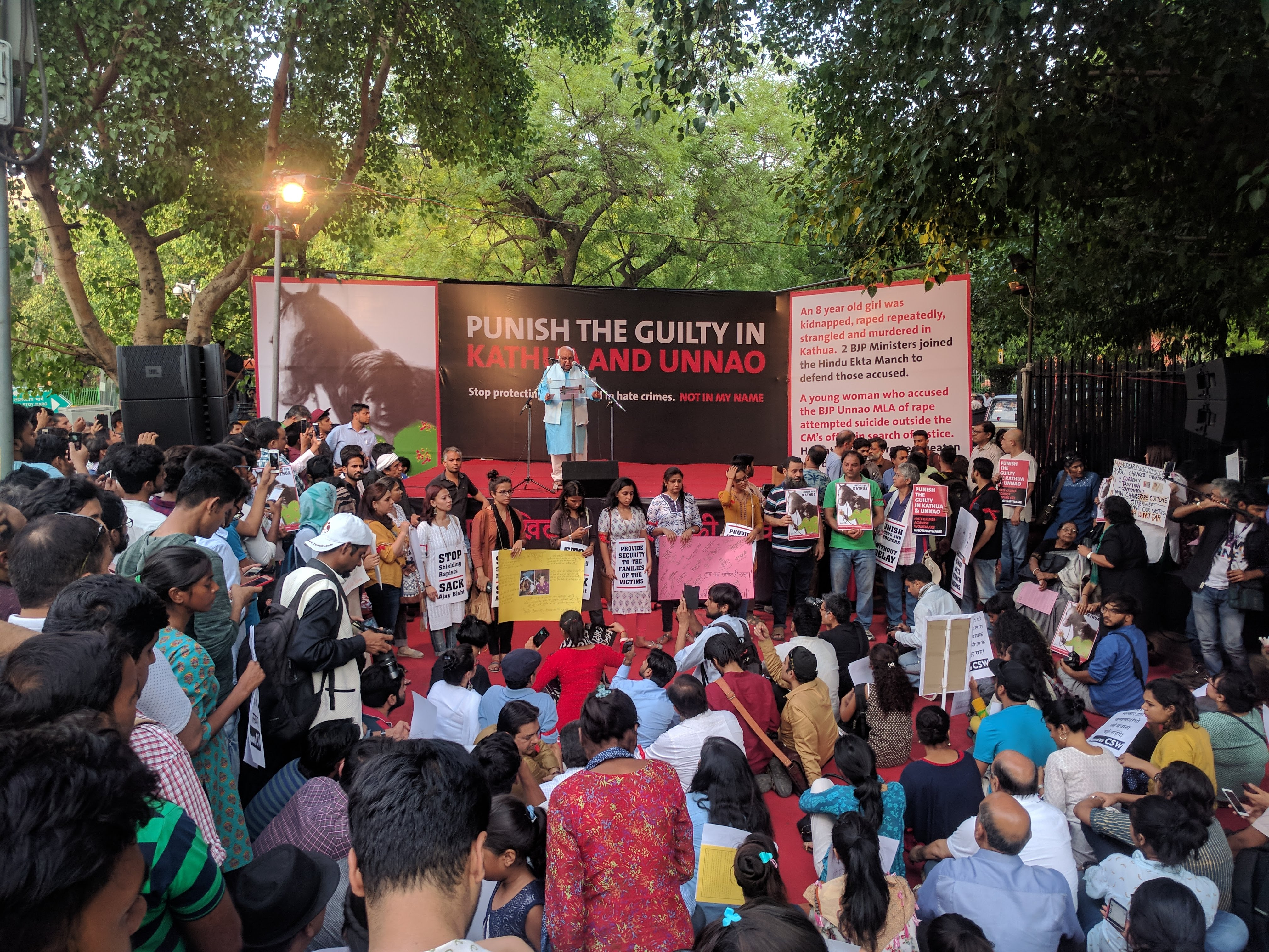 Protests for the Kathua Unnao Rape cases at Parliament Road, New Delhi.